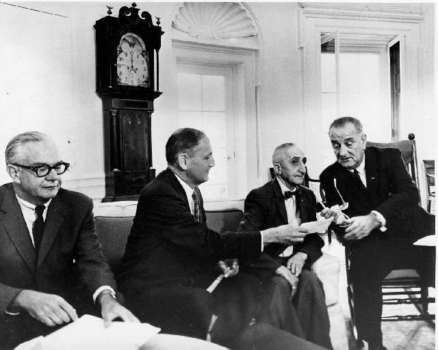 President Lyndon Johnson (right) Secretary of HEW John Gardner (second from left) and SSA Commissioner Bob Ball (left) received the first Medicare Part-B application form from a member of the general public, Mr. Tony Palcaorolla, of Baltimore, Maryland (next to President Johnson). Shortly after enactment of the legislation, SSA sent a mass mailing of application forms to all Social Security beneficiaries near or over age 65. Mr. Palcaorolla's completed and returned form was the symbolic first received from this mailing. September 1, 1965. SSA History Archives.